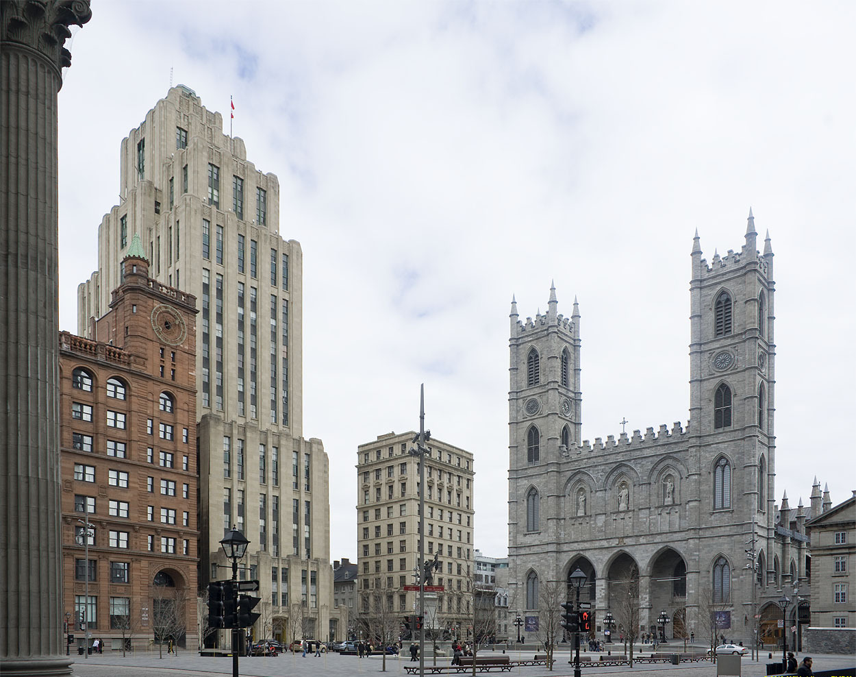 Redecorated Montréal place d’Armes (April 2012) seen from northwest angle.